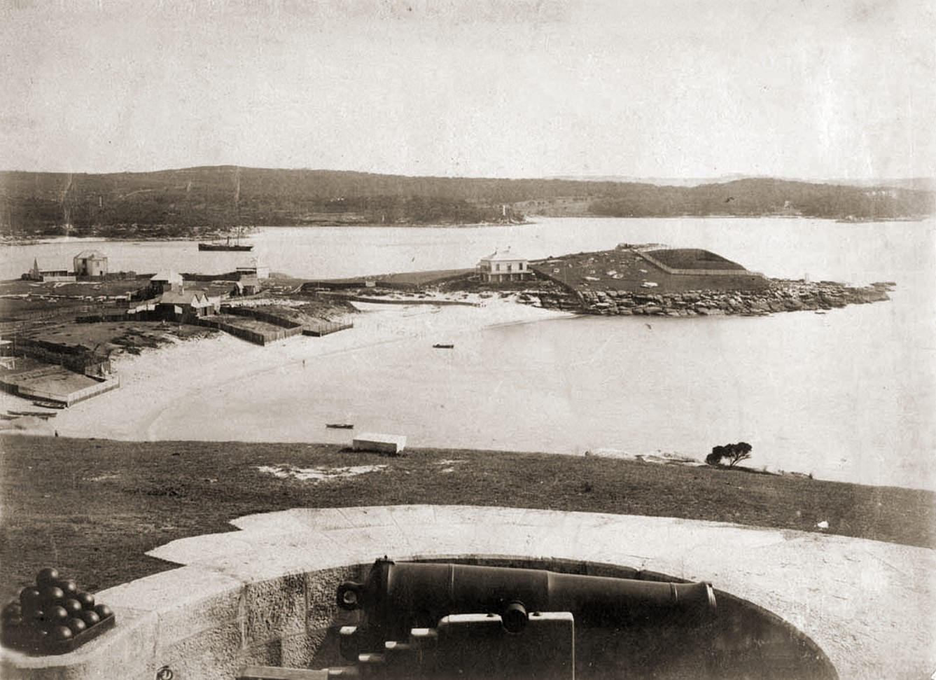 Albumen photoprint of Watson's Bay, New South Wales in 1878. The Marine Biological Station built by Nicholas Miklouho-Maclay can be seen in the centre of the photo.